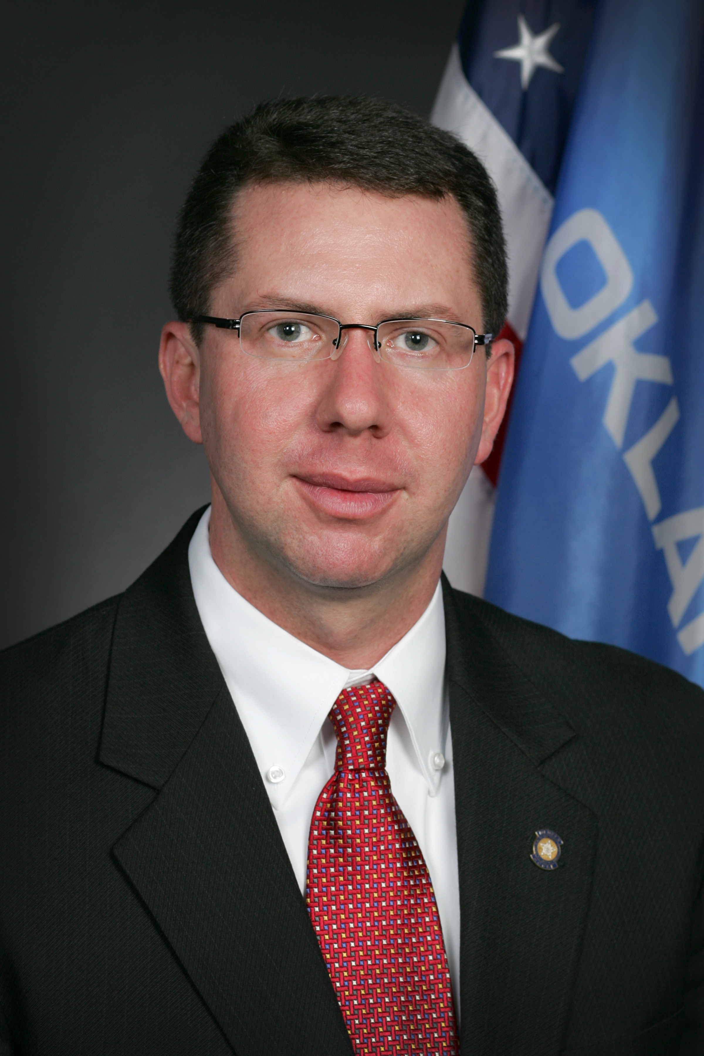 Former Oklahoma House Speaker